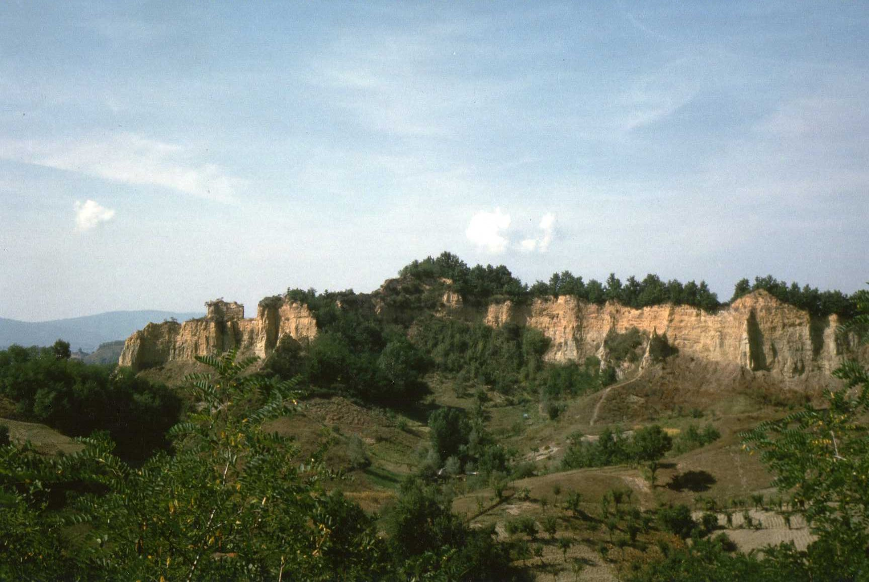 View of Balze Faella: Barberaia